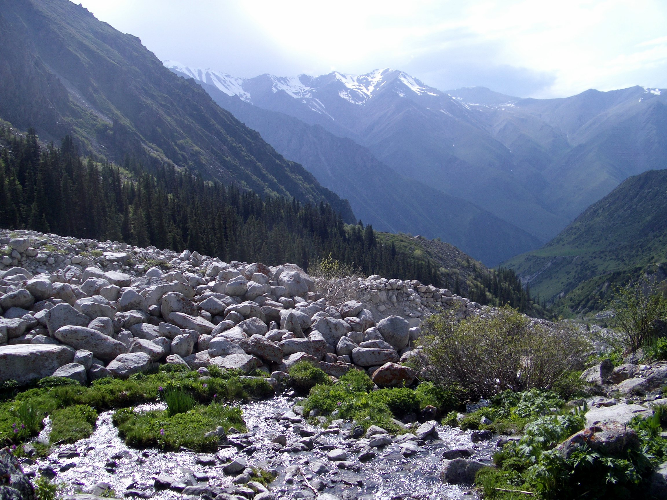 A view of the Ala Archa valley of Kyrgyzstan during the summer of 2004.